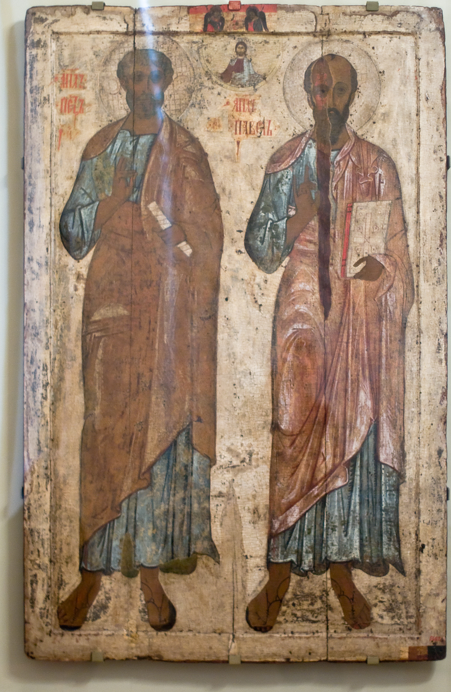 SS. APOSTLES PETER AND PAUL 13th Century From the Church of Ss. Peter and Paul, Belozersk